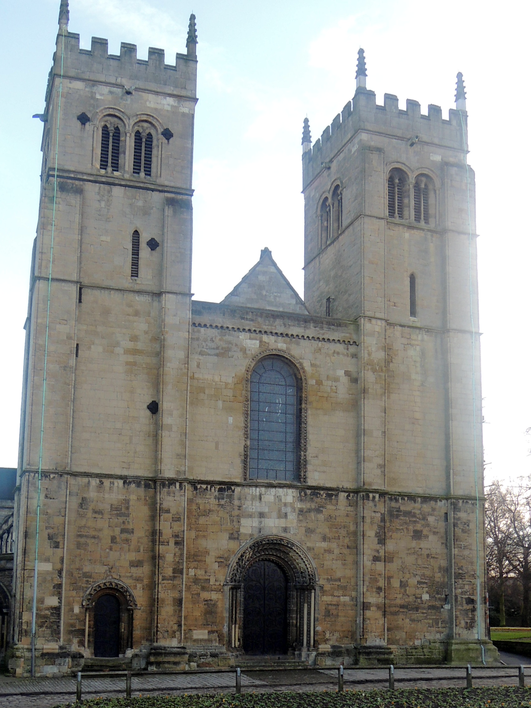 Worksop Priory is a Church of England parish church and former priory located in the Nottinghamshire town of Worksop. It was built in 1103.